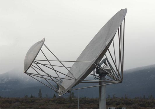 Artist rendering of dish antenna of the Allan Telescope Array, a radio telescope for combined radio astronomy and SETI (search for extraterrestrial intelligence) research being built by the University of California at Berkeley, outside San Francisco. The first phase, consisting of 42 6-meter dish antennas shown here, was completed in 2007. Eventually it will have 350 antennas. This type of antenna is called an offset Gregorian design. The incoming radio waves are reflected by the large parabolic dish onto the secondary parabolic reflector in front of the dish, and then into a feed horn at the edge of the dish. It covers the frequency range from 0.5 to 11.2 GHz.